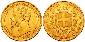 Italia, Regno di Sardegna. Vittorio Emanuele II (1849-1861). AV 20 Lire detto Marengo (6.45 g). zecca di Torino: B e testa d'aquila; data: 1857. Incisore F. (Ferraris) Testa nuda sin - VICTORIVS EMMANUEL II . D. G. REX SARD .CYP. ET HIER. Stemma coronato; DVX SAB. GENVAE ET MONTISF. PRINC . PED . &; sotto segno di zecca. Italy, Kingdom of Sardinia. Victor Emmanuel II. 1849-1861. AV 20 Lire (6.45 g). Turin mint; mint mark B and eagle's head. Dated 1857. Bare head left Crowned coat-of-arms; below mint mark. Pagani 351; Friedberg 16; KM 17. Italian pre-unification coins